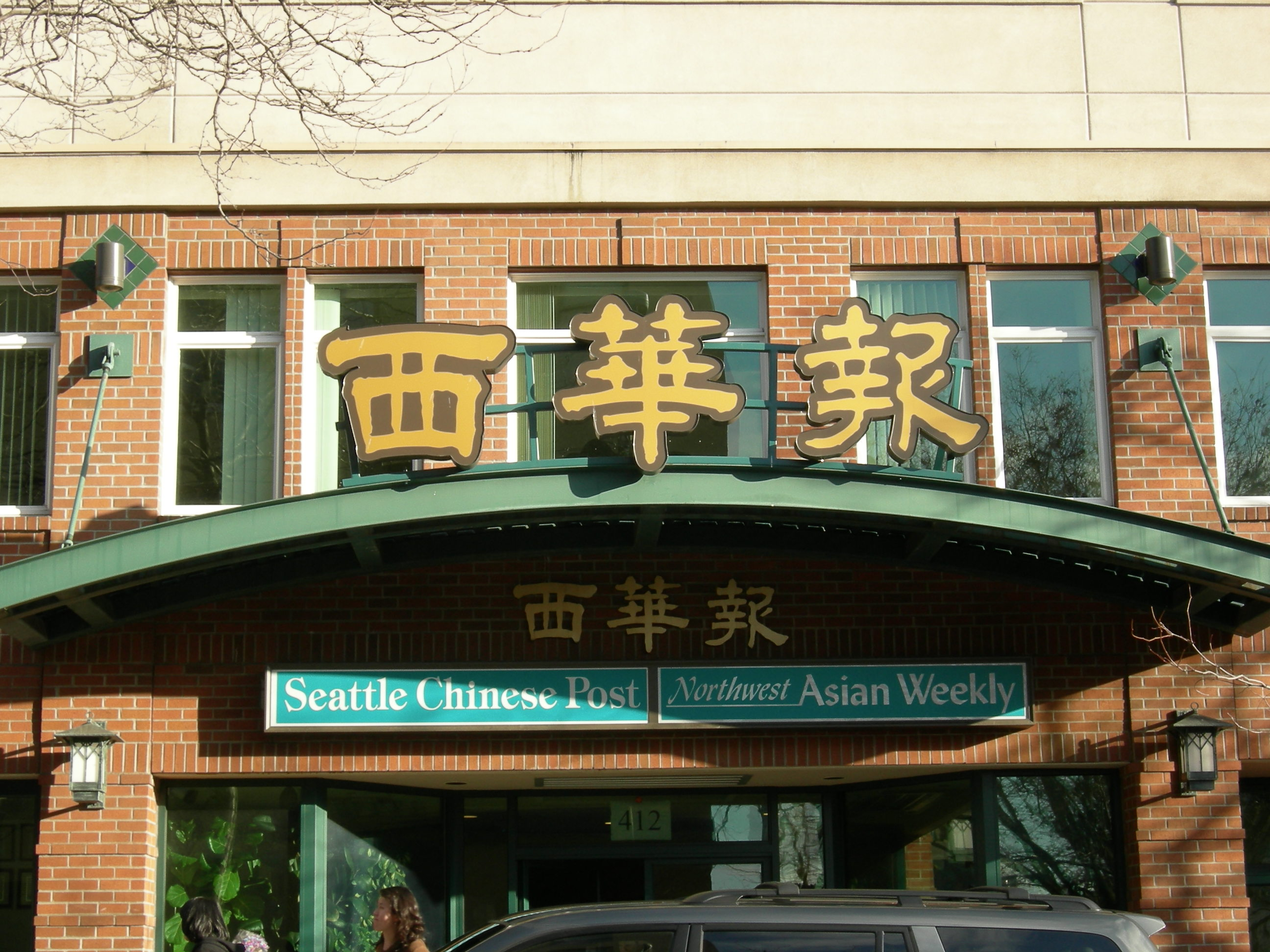 Sign over the entrance to the offices of Seattle Chinese Post & Northwest Asian Weekly, International District, Seattle, Washington.